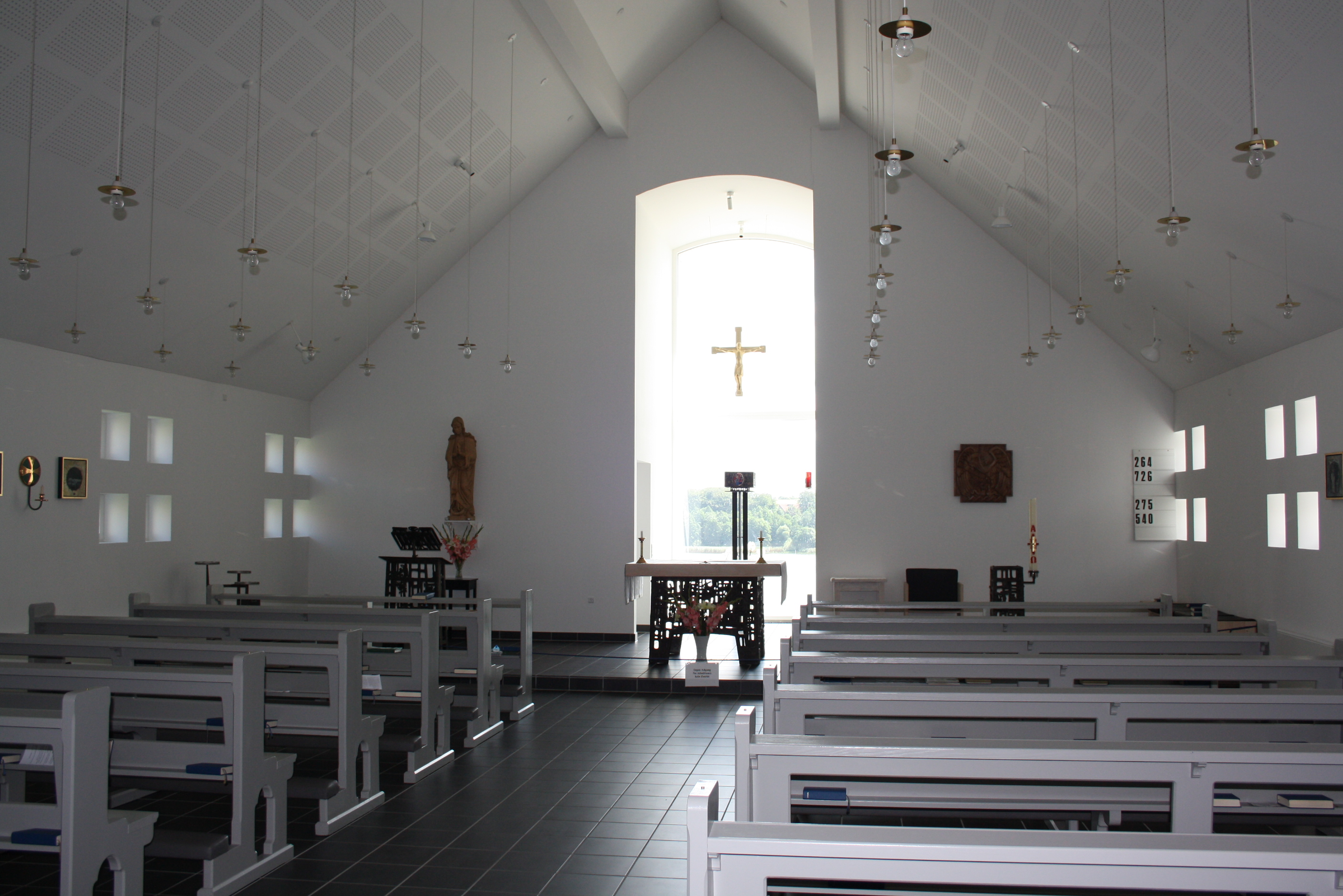 The inner of the roman catholic Saint Kjelds church in Viborg, Denmark.